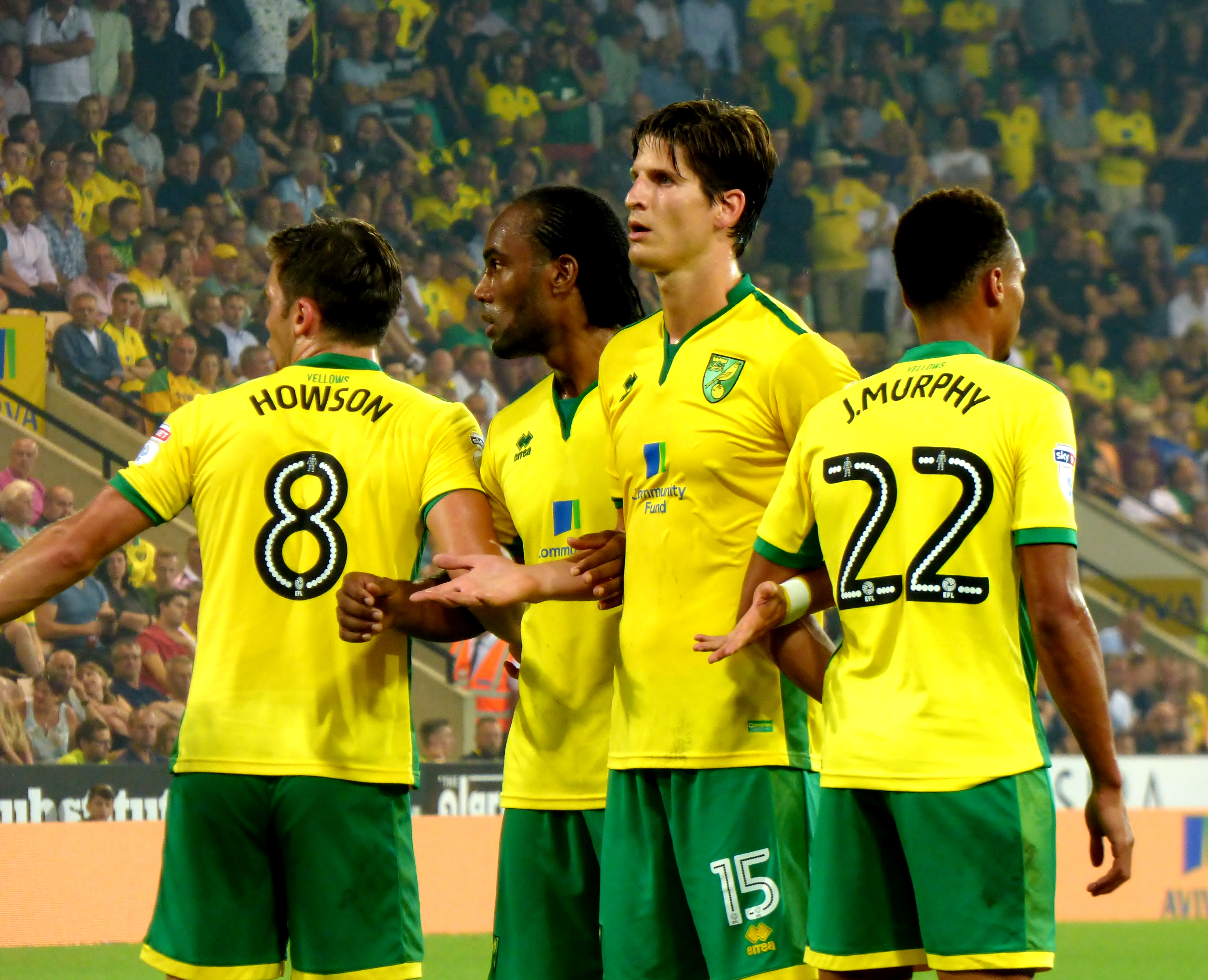 Jonny Howson, Cameron Jerome, Timm Klose and Jacob Murphy position a wall infront of Michael McGovern's goal to defend a free kick to be taken by Wigan Athletic in the 2016/17 Championship season.